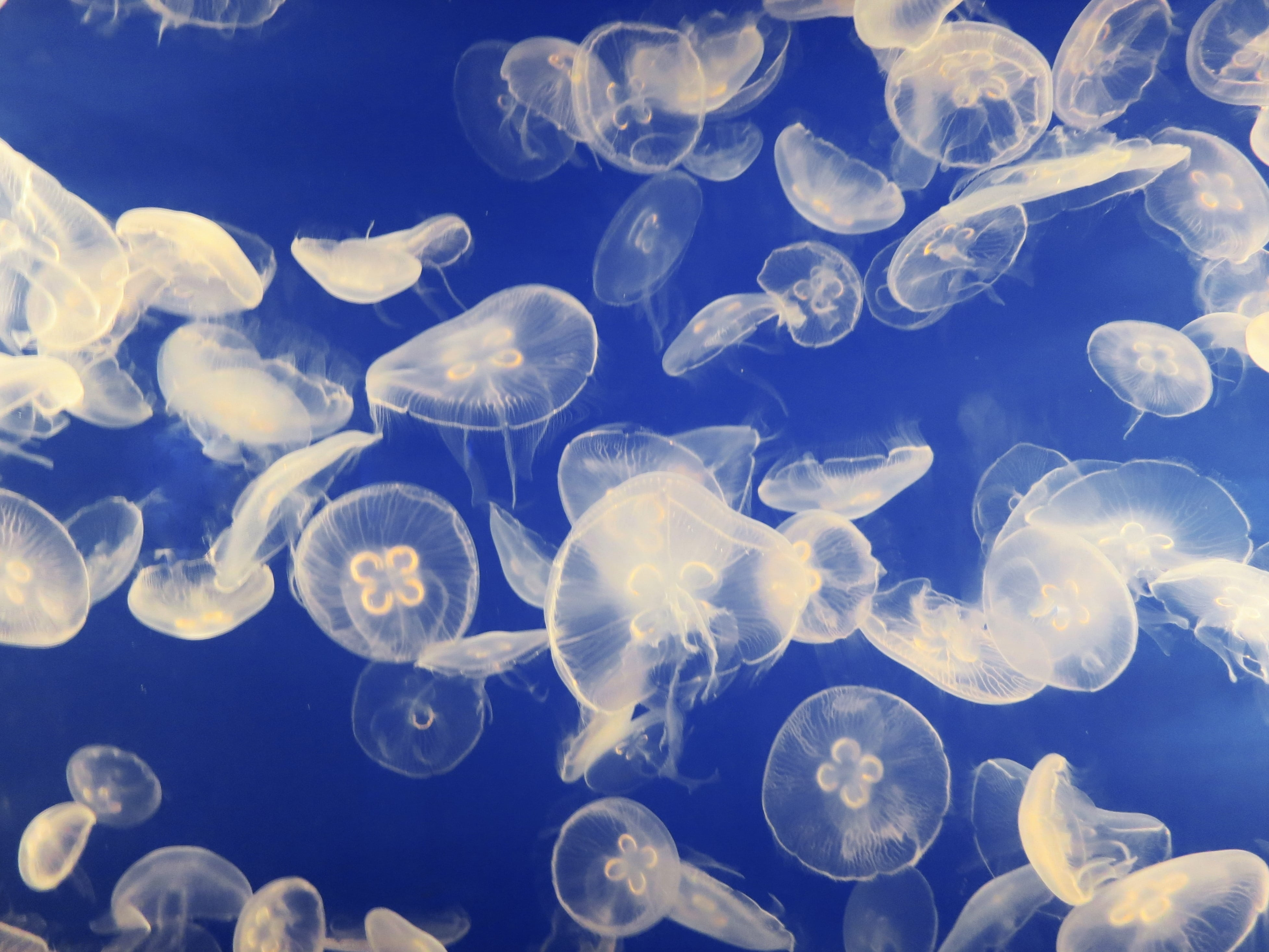 Jellyfish swarm